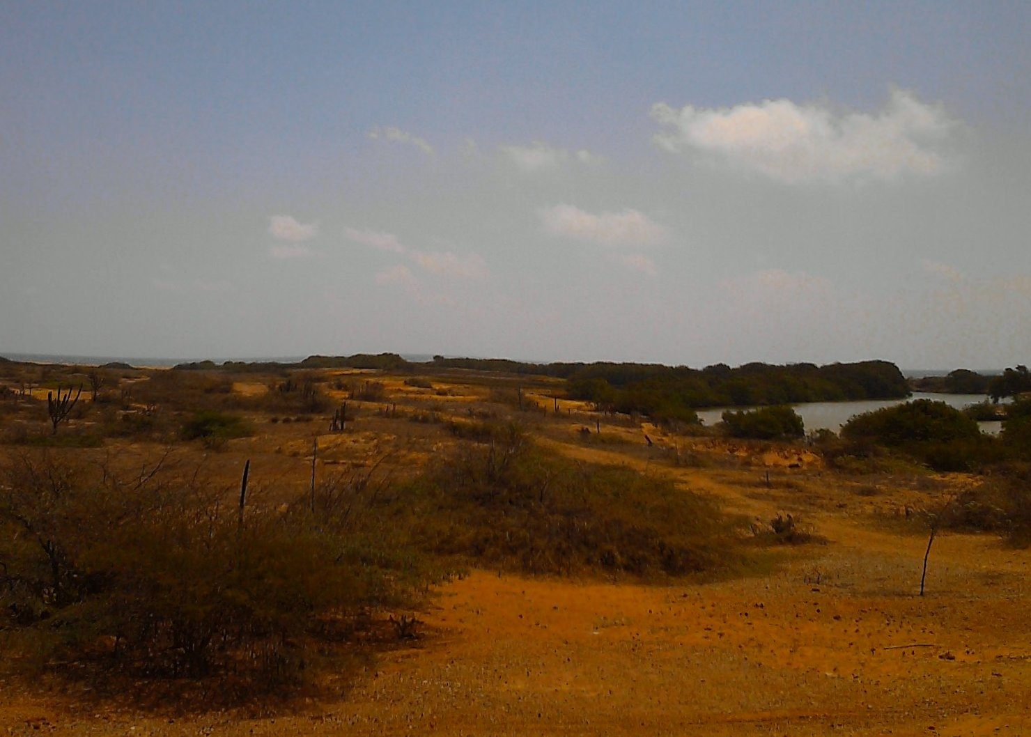 Beaches in the Guajira